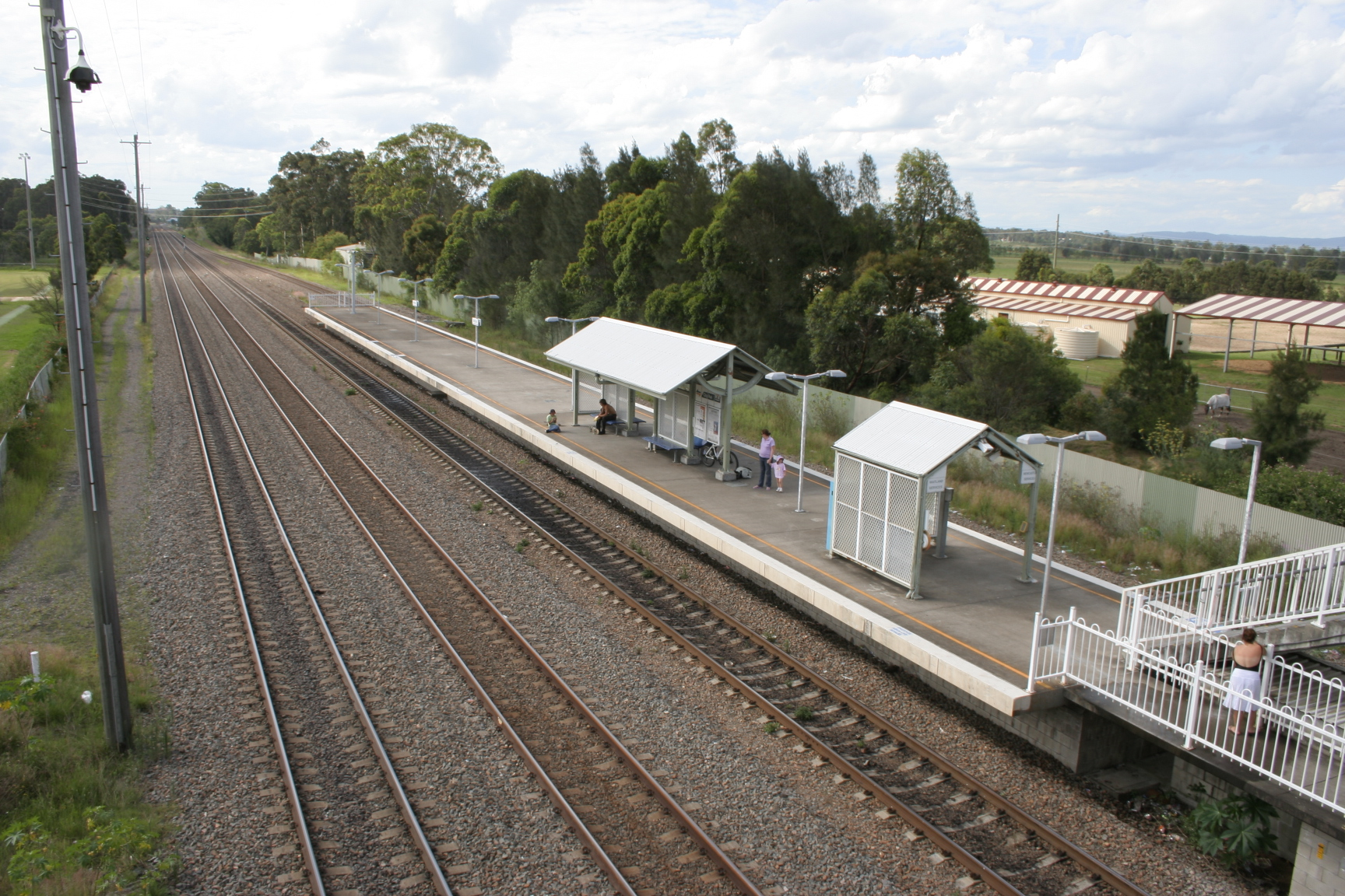 Metford railway station